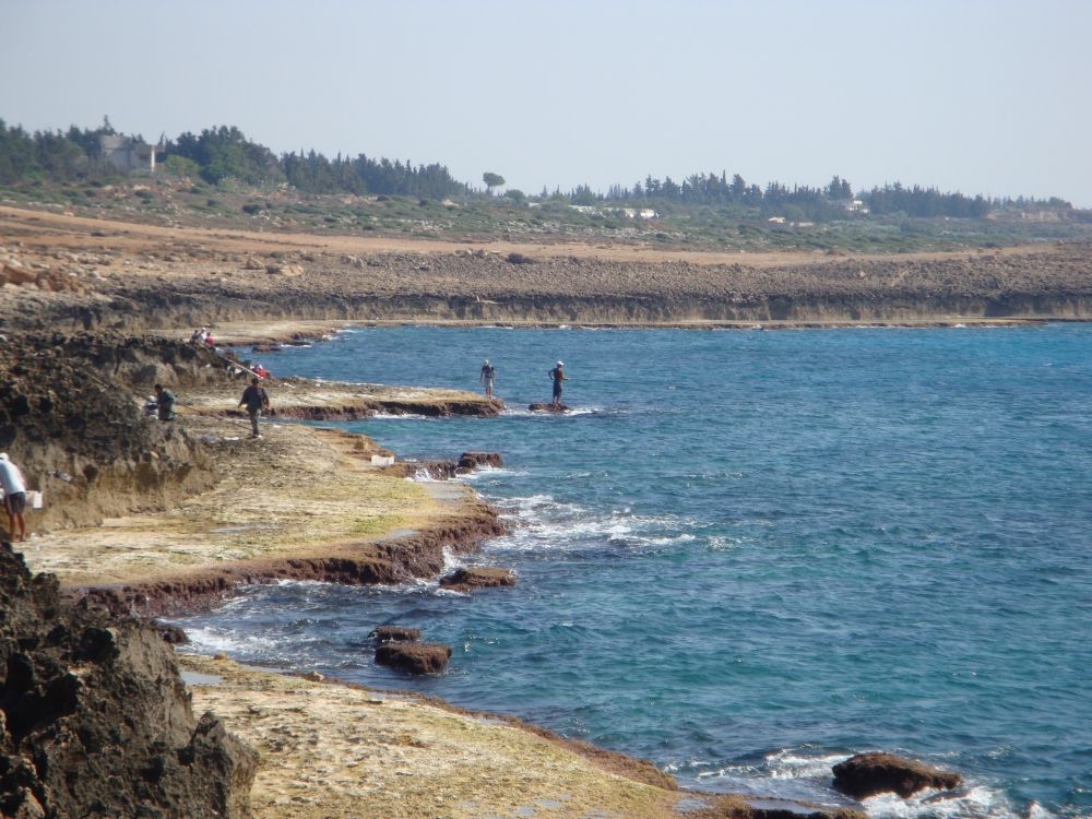 View of the Mediterranean sea, from Latakia, Syria